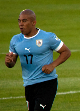 Egidio Arévalo Ríos during game vs Chile, 2011-11-11.